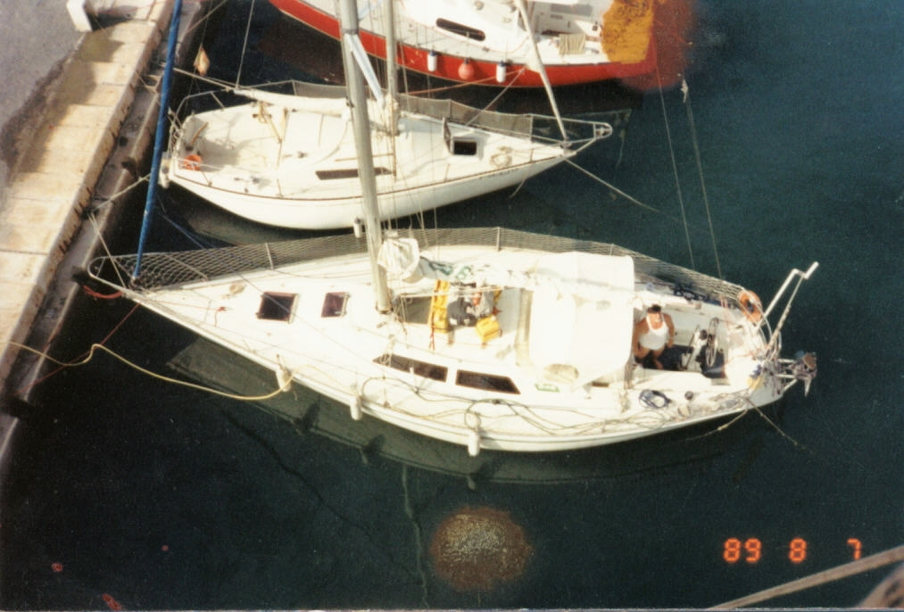 Karmadu, the 35 feet long Kamper-Nickolson sloop used by Christos Panagoulopoulos for his voyage across the Atlantic which made alone in 1989